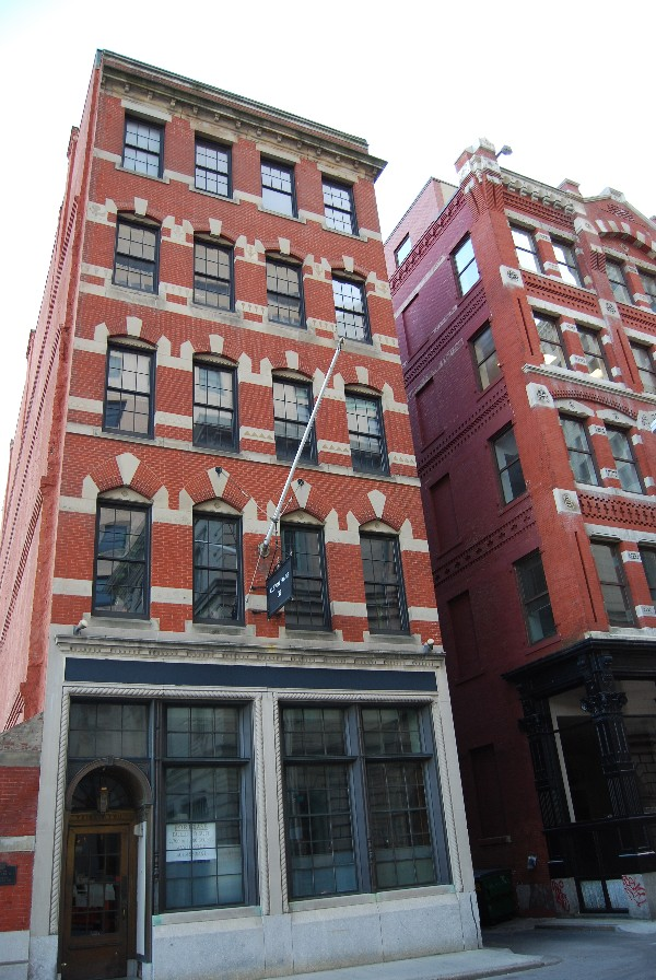 Eddy Building, Providence, Rhode Island